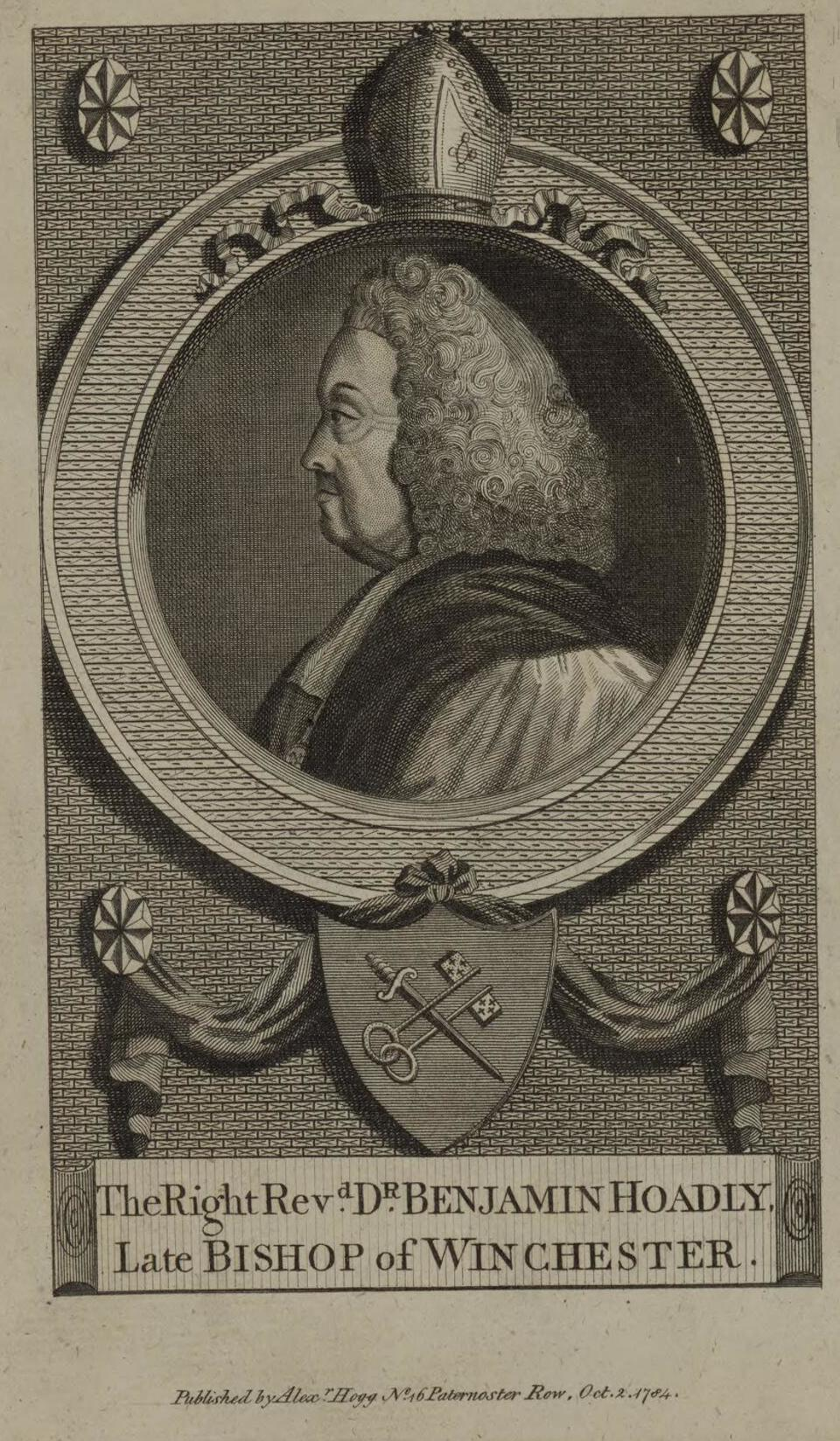 A portrait from the Welsh Portrait Collection at the National Library of Wales. Depicted person: Benjamin Hoadly – British bishop